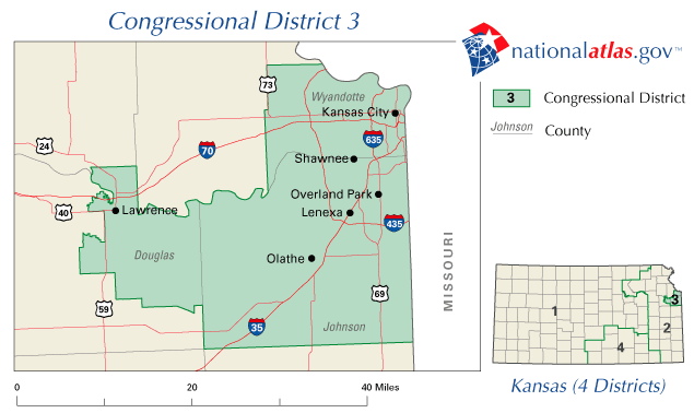 Congressional District 3 of Kansas for the 108th Congress. Also available in pdf format.